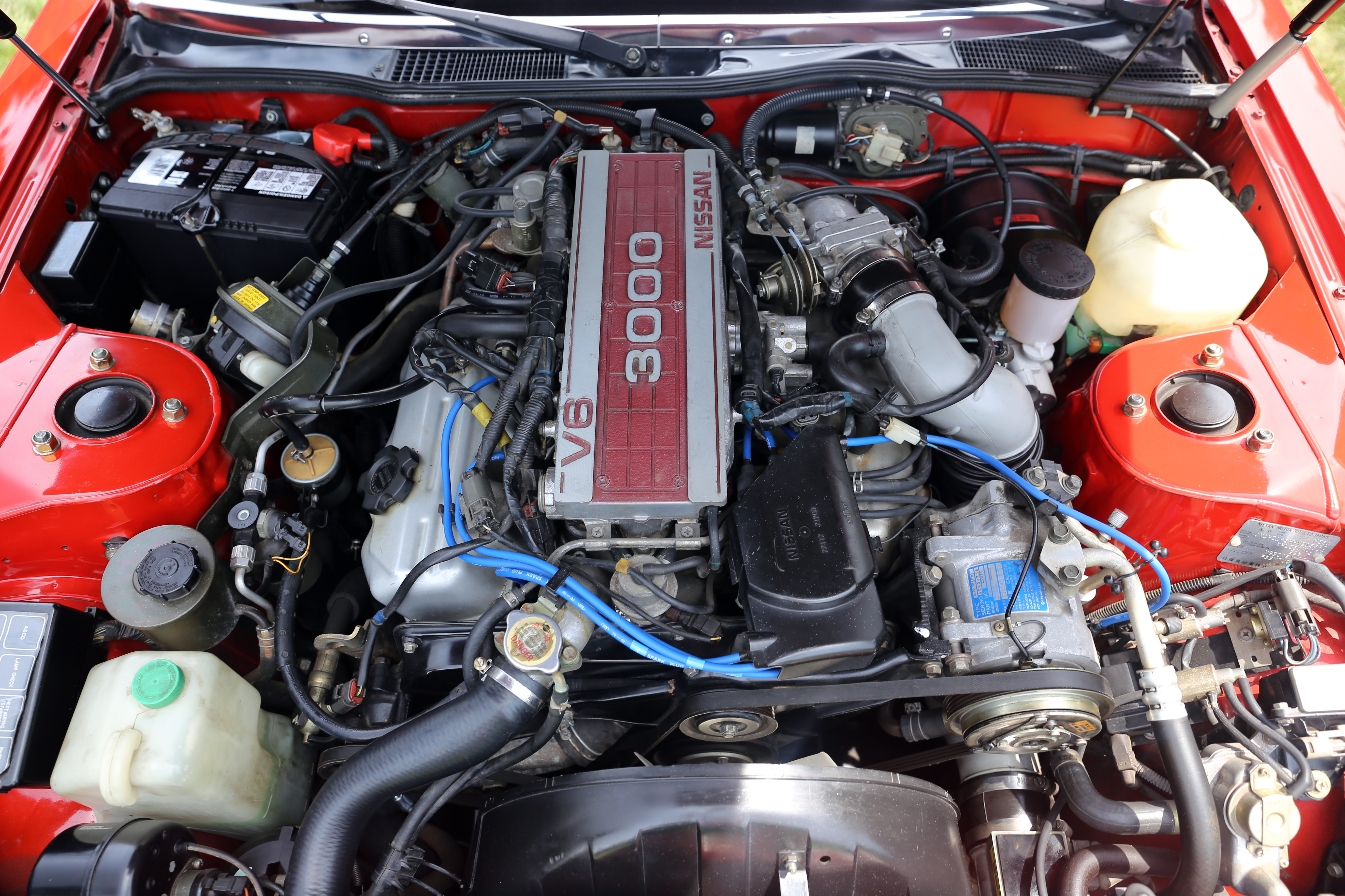 The VG30E engine of a 1987 Nissan 300ZX GL-L. A two-seater with a manual transmission, finished in red (526T) and assembled in Nissan's Hiratsuka plant.